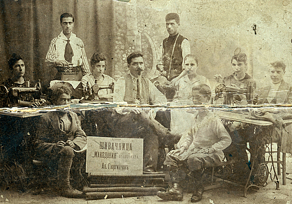 Alexander Gyrginchev's Sewing Atelier